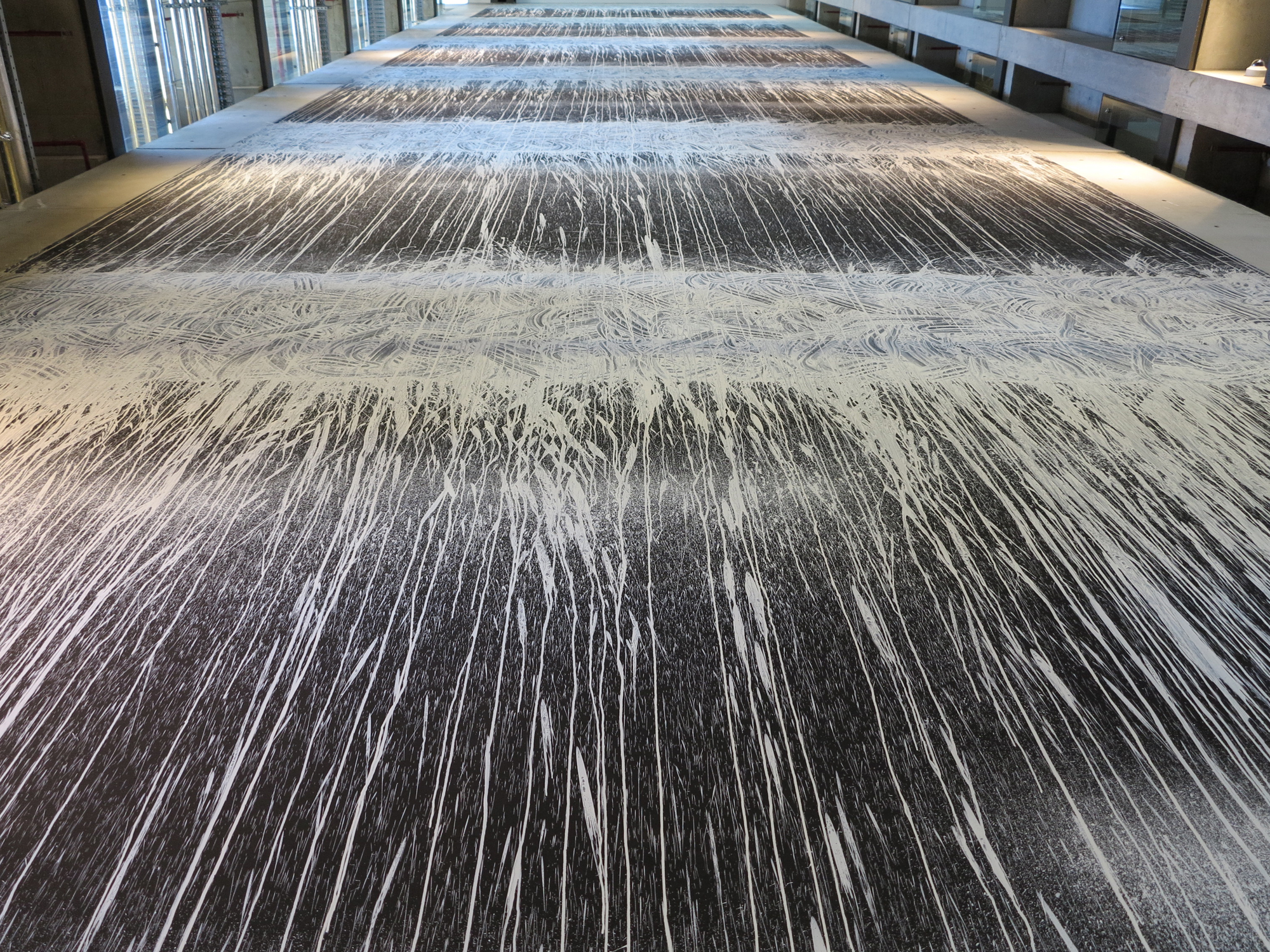 Detail of 'White Water Falls' (2012), by artist Richard_Long, installed in The Kinghorn Cancer Centre at the Garvan_Institute_of_Medical_Research in Sydney, Australia.